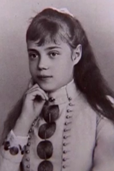 Xenia Alexandrovna of Russia